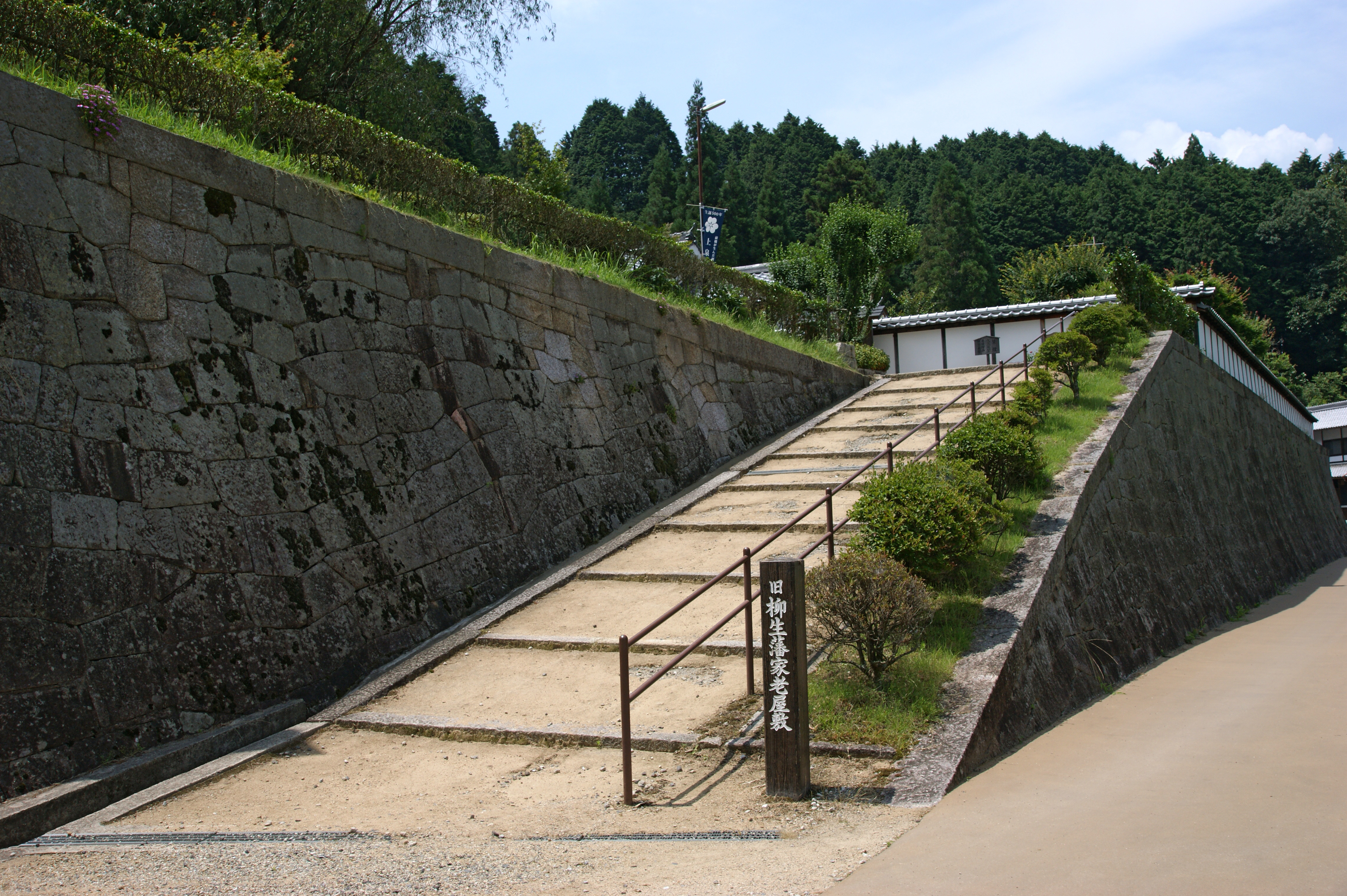 Kyu Yagyuhan karoyashiki in Nara, Nara prefecture, Japan